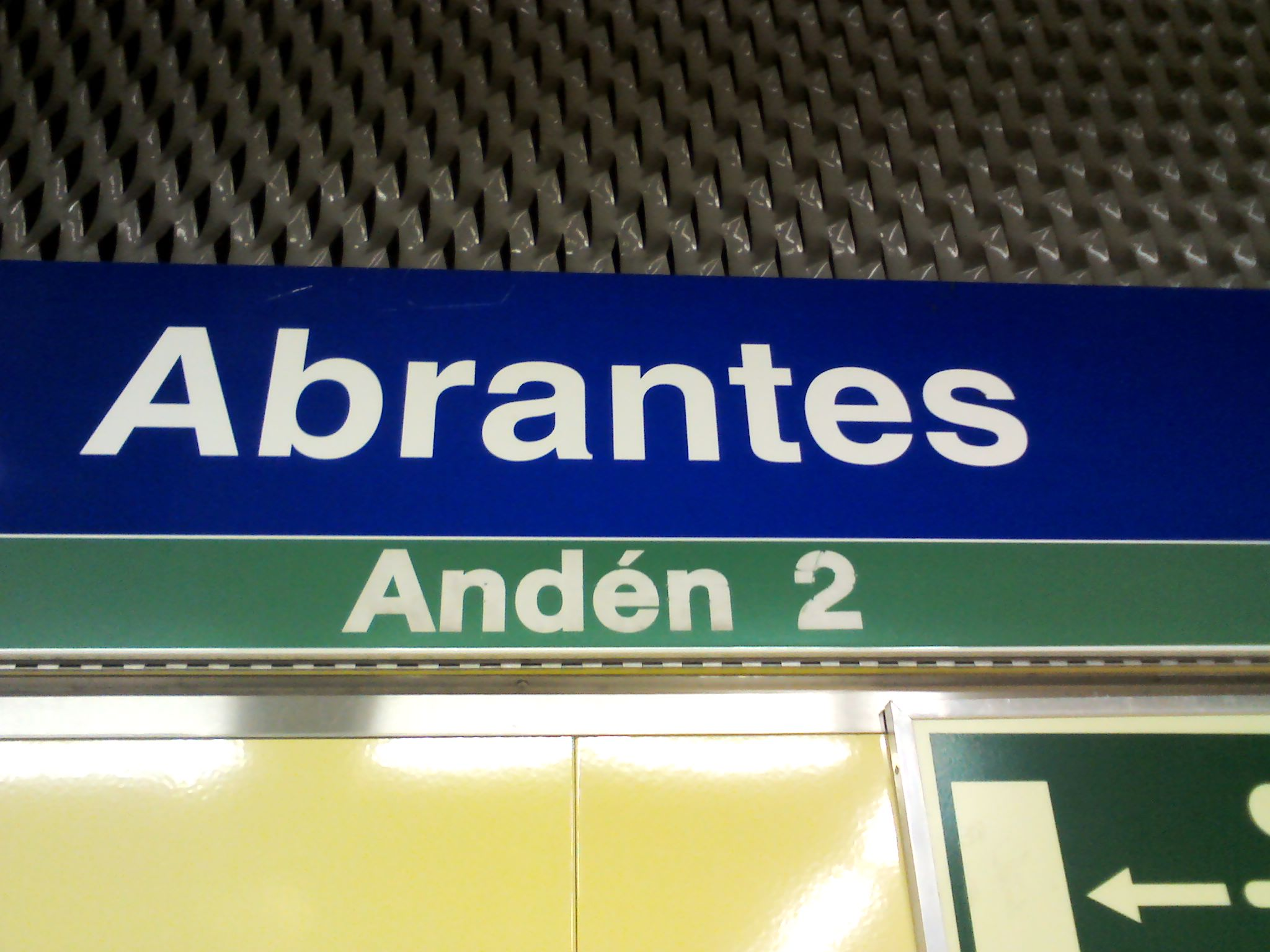 Estación_de_Abrantes,_Carabanchel